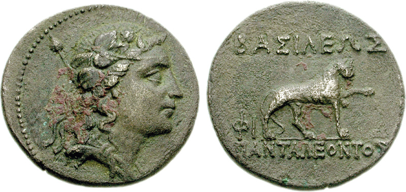 Cupro-nickel coin of king Pantaleon. Obv: Bust of Dionysos with a wreath of leavesthyrsos over left shoulder. Rev: Panther with a small bell around the neck,touching a vine with the left leg; left paw raised; FI to left. Bopearachchi Série 2B; cf. SNG ANS 262; cf. MIG Type 160c; Spink 165. Greek legend: BASILEOS PANTALEONTOS "King Pantaleon". Circa 185-180 BC. Nickel Double Unit (8.03 g, 11h). Greco-Baktrian Kingdom.